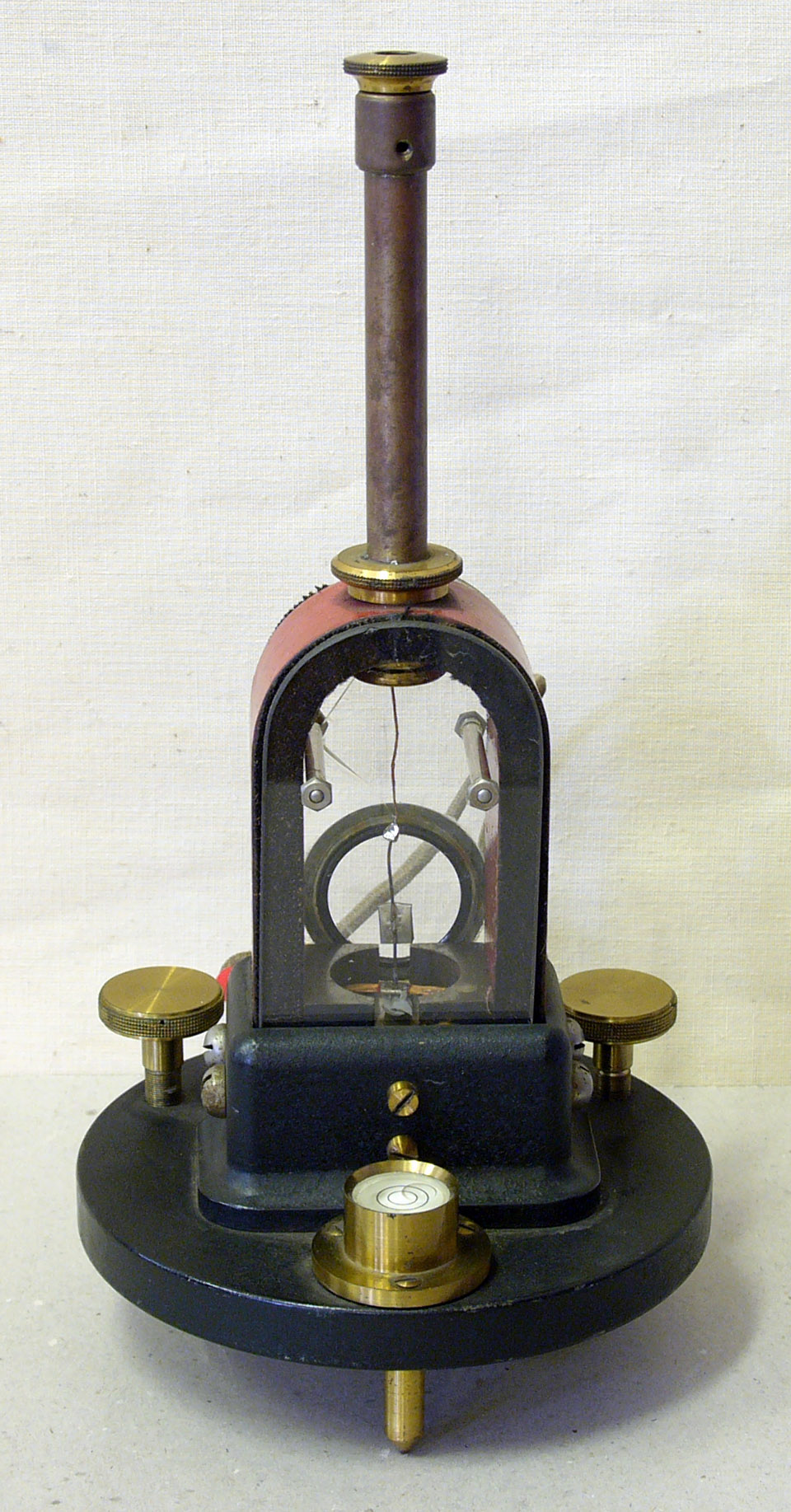 Mirror galvanometer, used in physics education probably around 1900, on display in the Schulhistorische Sammlung (School Historical Museum), Bremerhaven, Germany. It was used to measure small currents. Wires from the current source were attached to the binding posts at either side of the base. The current passed through the wire coil and caused a magnetized needle suspended from a fiber in the vertical column to turn. This also turned a mirror attached to the fiber. The current was measured by the deflection of a beam of light reflected from the mirror and striking a graduated scale (not shown).